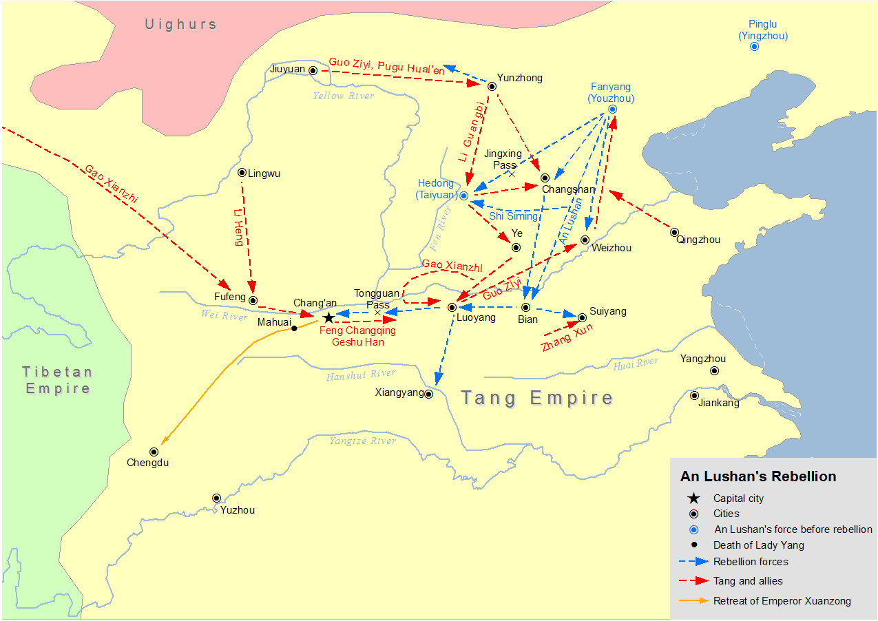 Map showing the An Lushan Rebellion 中文（中国大陆）: 唐朝安史之乱示意图